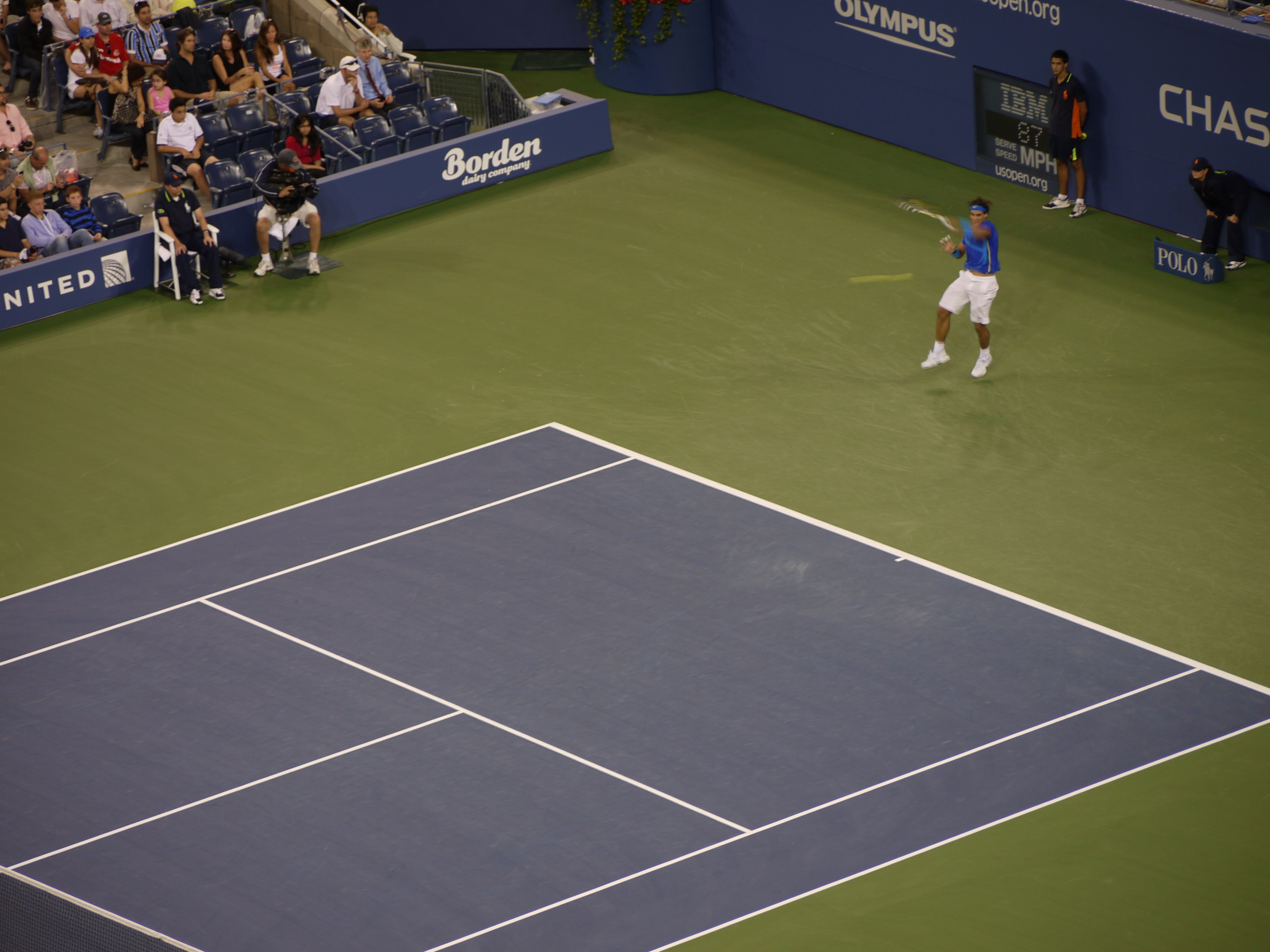 Nadal hitting a forehand against Andy Murray.